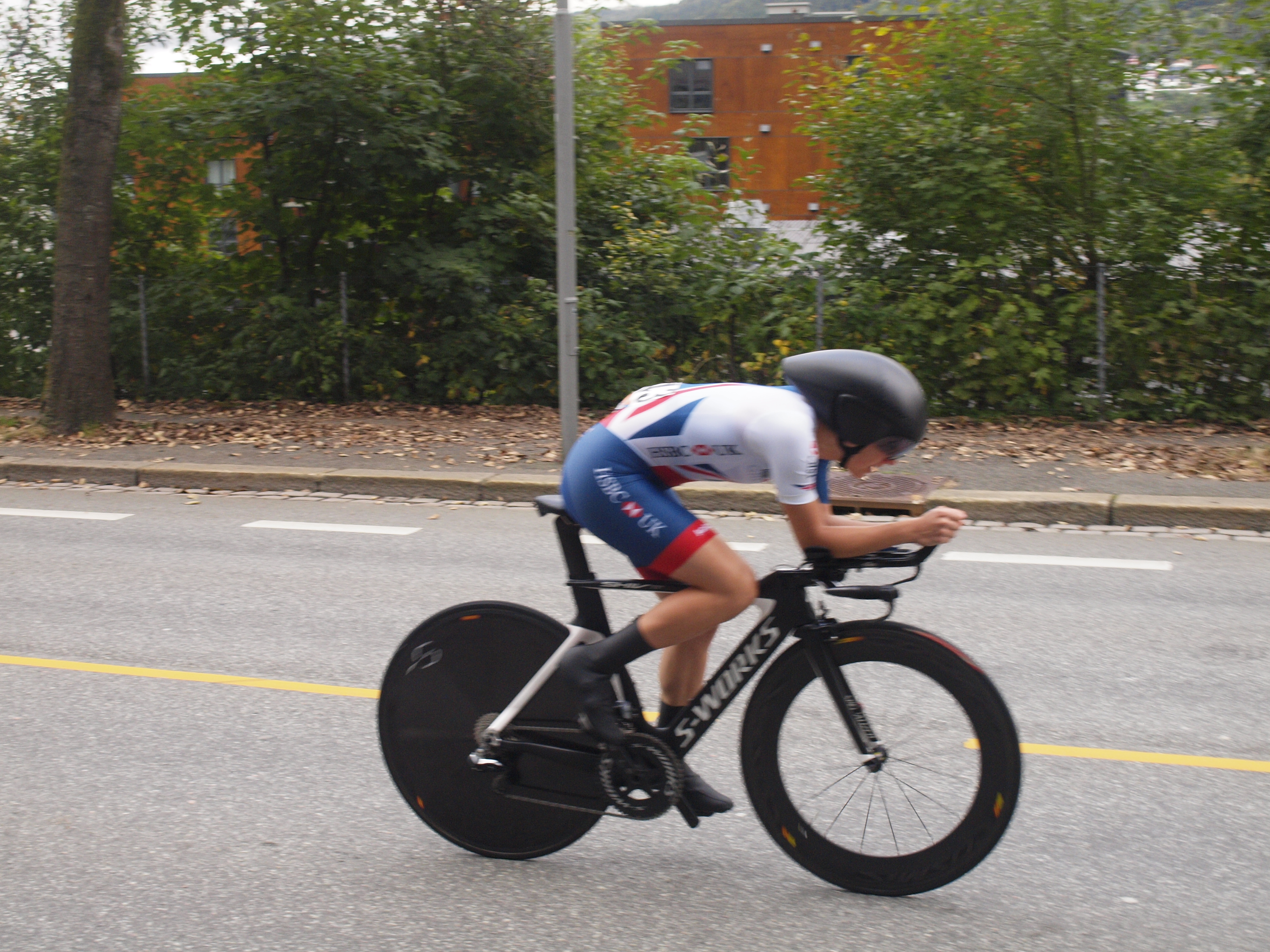 Elinor Barker 2017 at the 2017 UCI World Championships